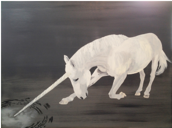 Unicorn Purifying Water, oil on canvas